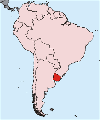 Map of South America, Uruguay highlighted